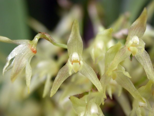 Anathallis